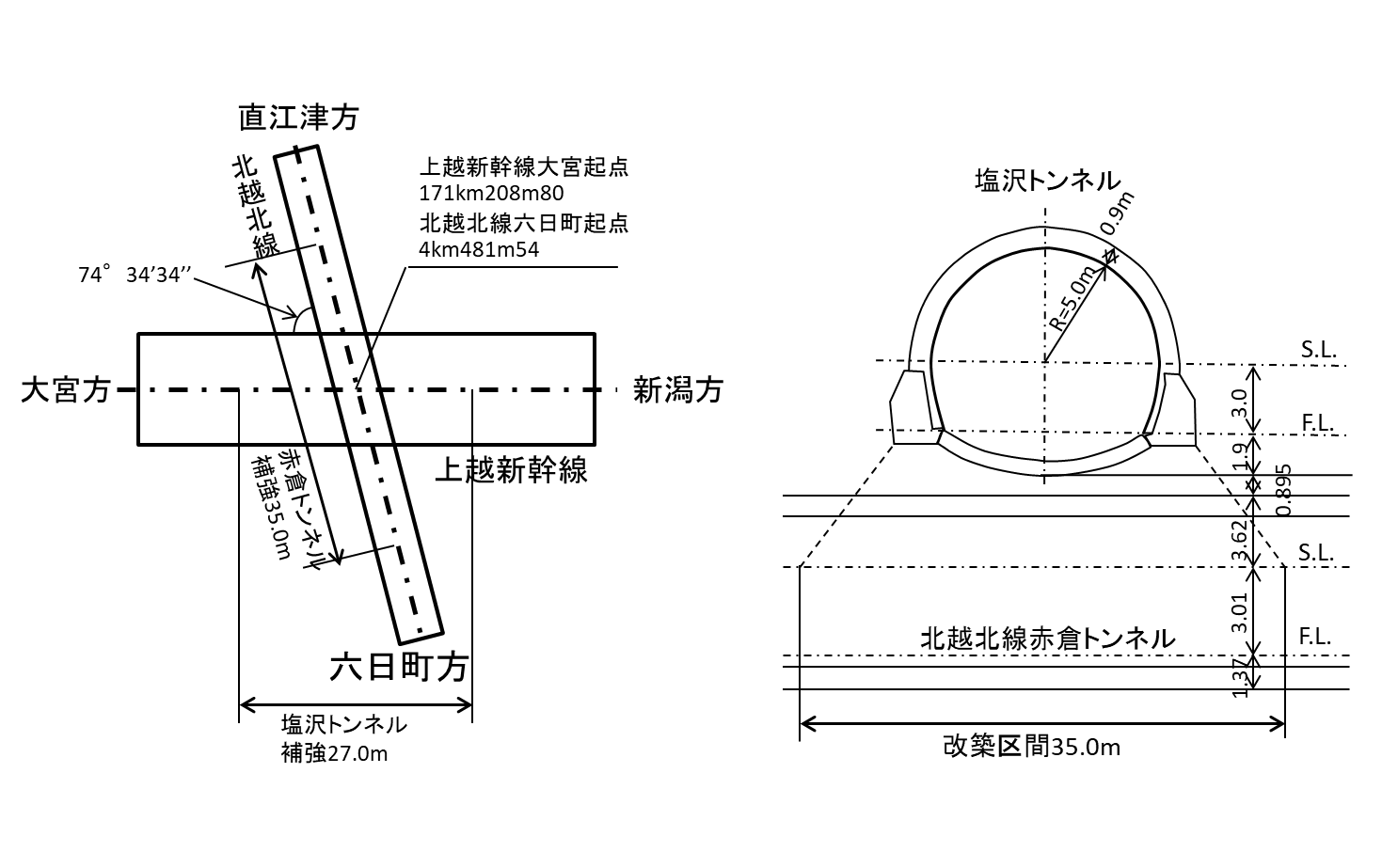 Diagram showing the crossing point of Shiozawa tunnel for Joetsu Shinkansen and Akakura tunnel for Hokuetsu Express Hokuhoku line.